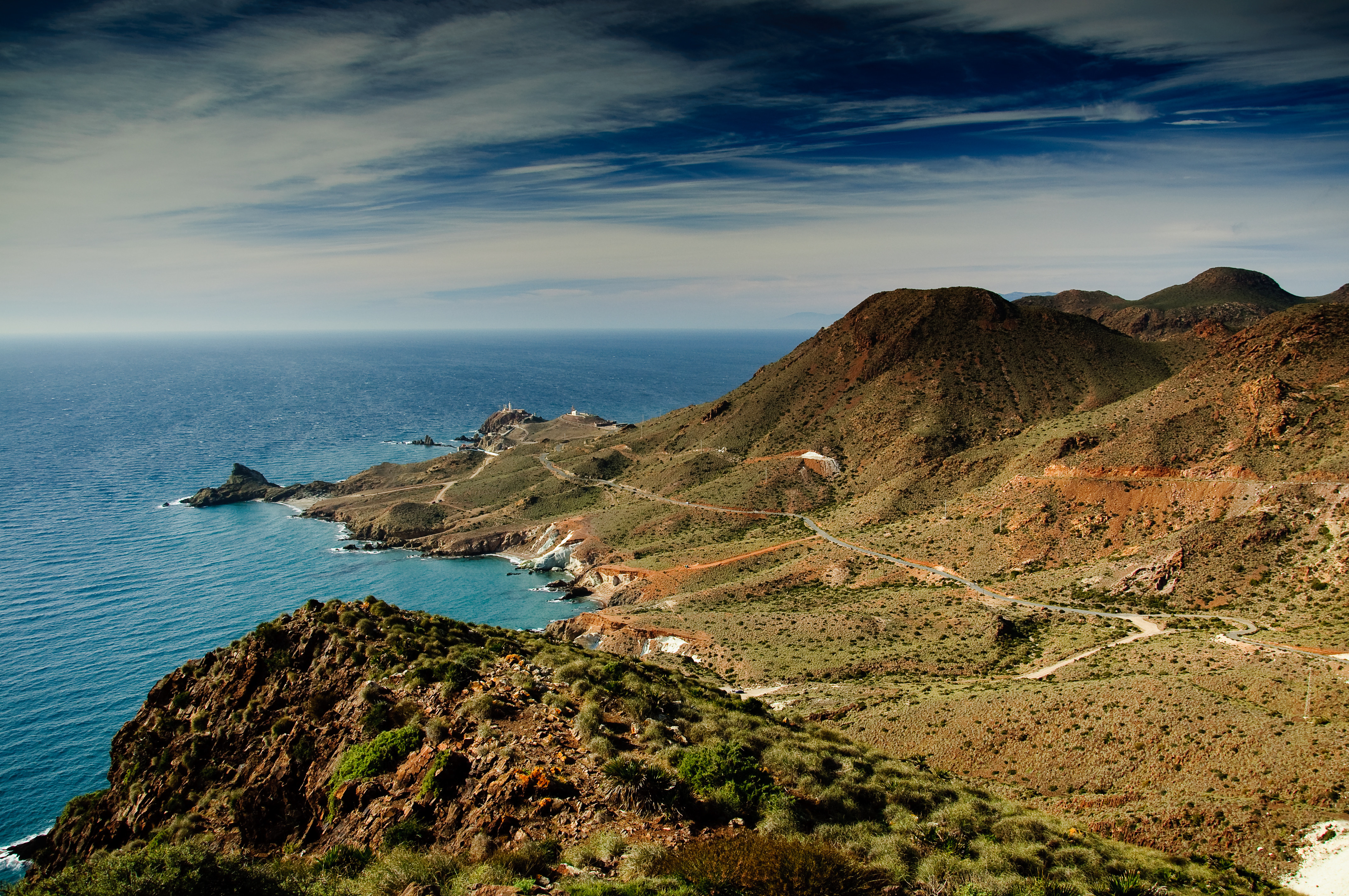 Cabo de Gata